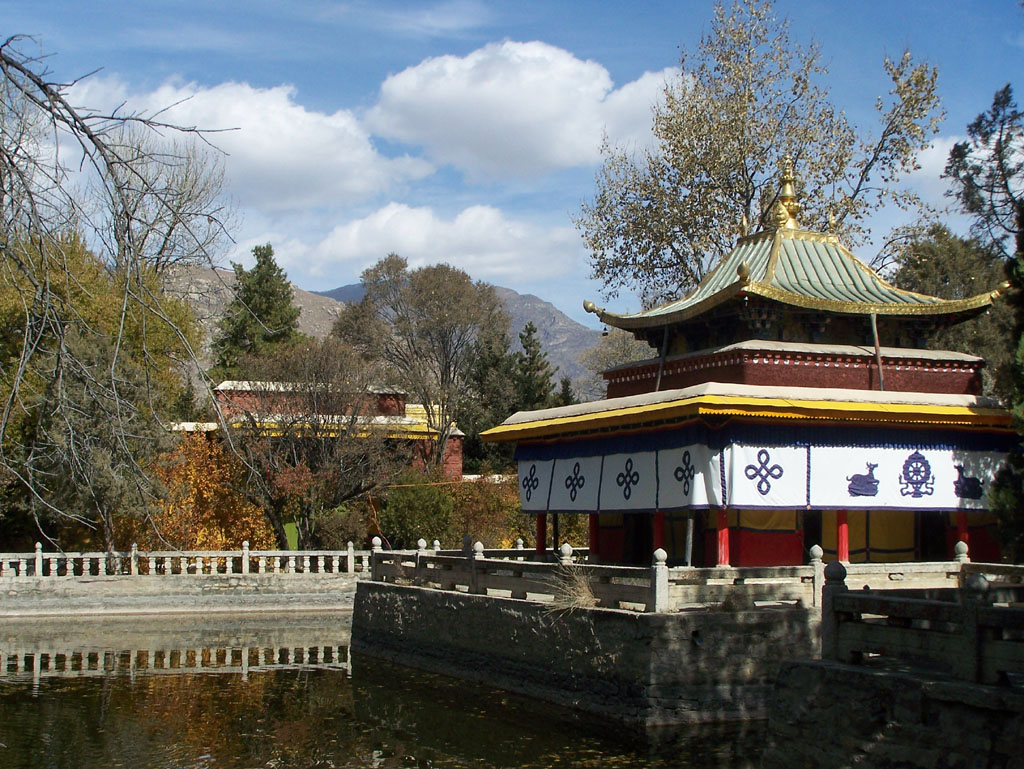 The lake and Summer Pavilion in Norbulingka (LuoBuLinKa — literally "The Jewelled Park") near Lhasa.